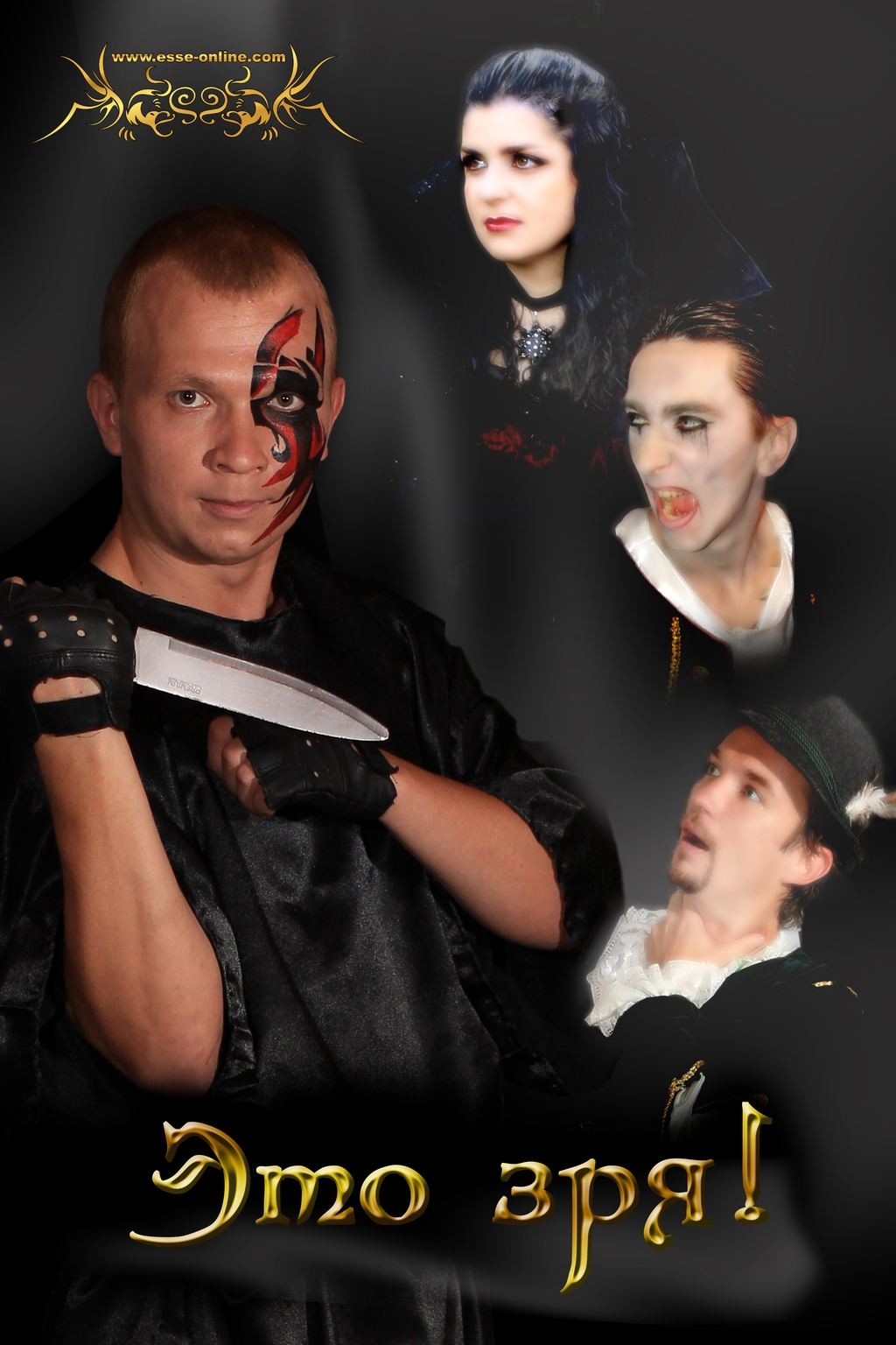 "It is in vain !". Fantasy rock musical of group "ESSE" -"The Road with No Return", based on the saga of A. Sapkowski "The Witcher". Official poster. Scene 9. Symphonic rock-group "ESSE". Evgeny Rudakov (warrior), Lyudmila Dymkova (Yennefer of Vengerberg), Konstantin Ilyin (Emiel Regis Rohellec Terzieff-Godefroy), Michael Papchenkov (Jaskier). (Poster - Anastasia Vorotnikova. Photo - Yuri Osadchy.)